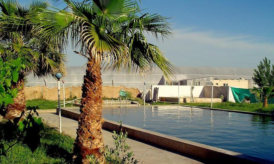 Gölemezli thermal baths in Akköy, Denizli, Turkey